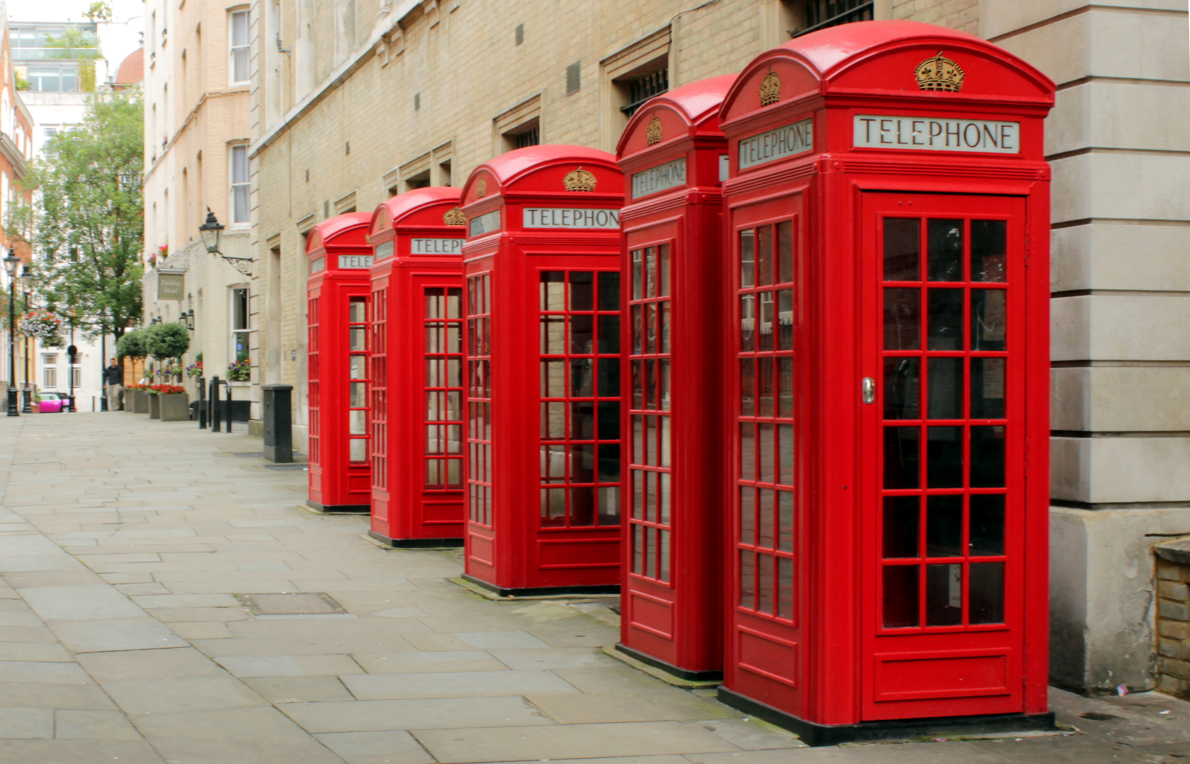 Five K2 telephone kiosks, Broad Court, London WC2, England